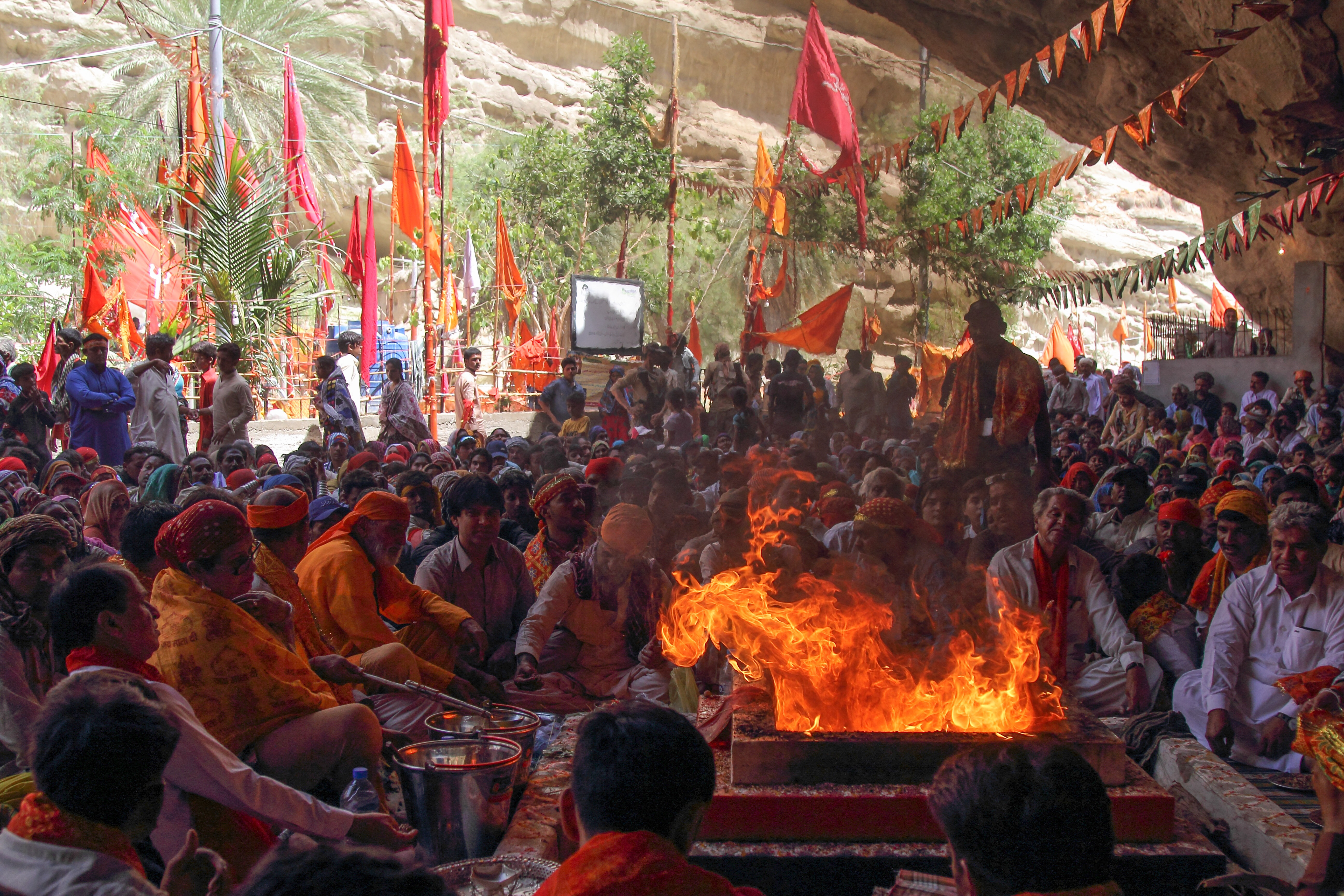 Hinglaj Mata (Rani ki Mandir) This is a photo of a monument in Pakistan identified as the BA-U-57